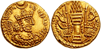 SASANIAN KINGS of PERSIA. Yazdgard II. 438-457 AD. AV Dinar (6.98 gm). ML (Merv) mint. "The Mazda worshipper, the divine, the fortunate, Yazdgard" in Pahlavi, crowned and cuirassed bust right / Degraded Pahlavi legend, fire altar with attendants, holding staves, and ribbon; no legend on central column, mint signature to right. Cf. Göbl I/1; Paruck -; Alram -; MACW -; De Morgan -. Good VF. Unpublished from Merv mint. [See color enlargement on plate 8] ($2000)